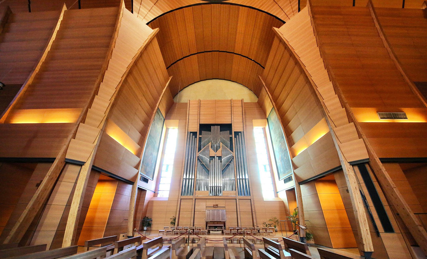 Pinchi Organ Pipe Santuario Don Bosco